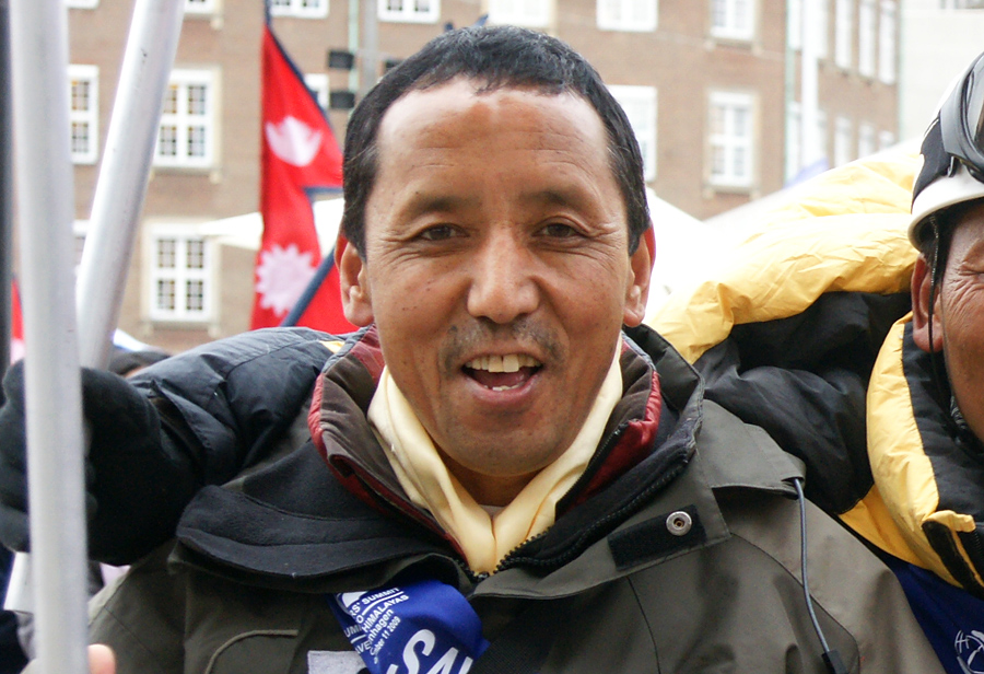 Apa Sherpa (born Lhakpa Tenzing Sherpa), Nepali Sherpa mountaineer, who reached the summit of Mount Everest for the 21st time on May 11, 2011